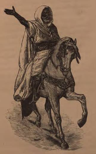 Muhammad Ahmad, The Mahdi of Sudan محمد أحمد المهدي كما تخيله فنان أوروبي